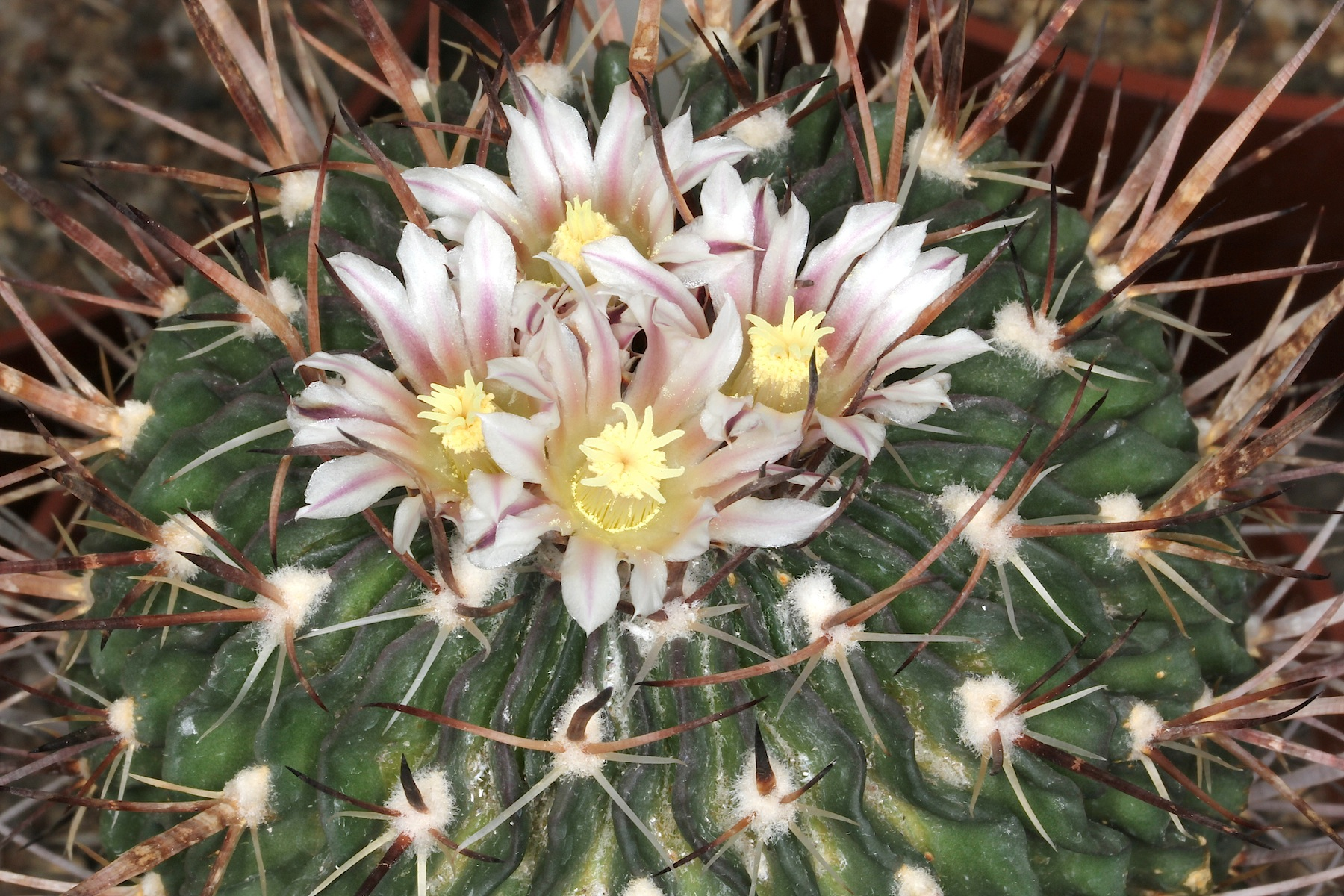 Stenocactus phyllacanthus